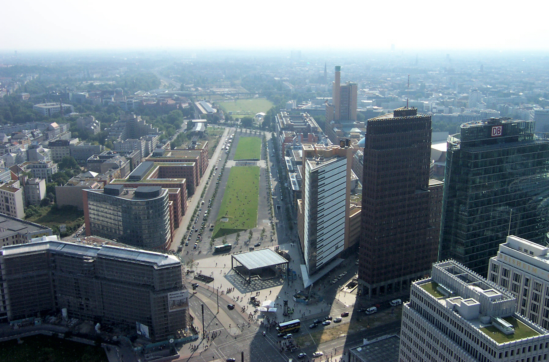 View of the Tilla-Durieux-Park in Berlin, the site of the former Potsdamer Bahnhof railway terminus.